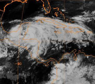 GIBBS image showing Tropical Storm Arthur on May 31, 2008.